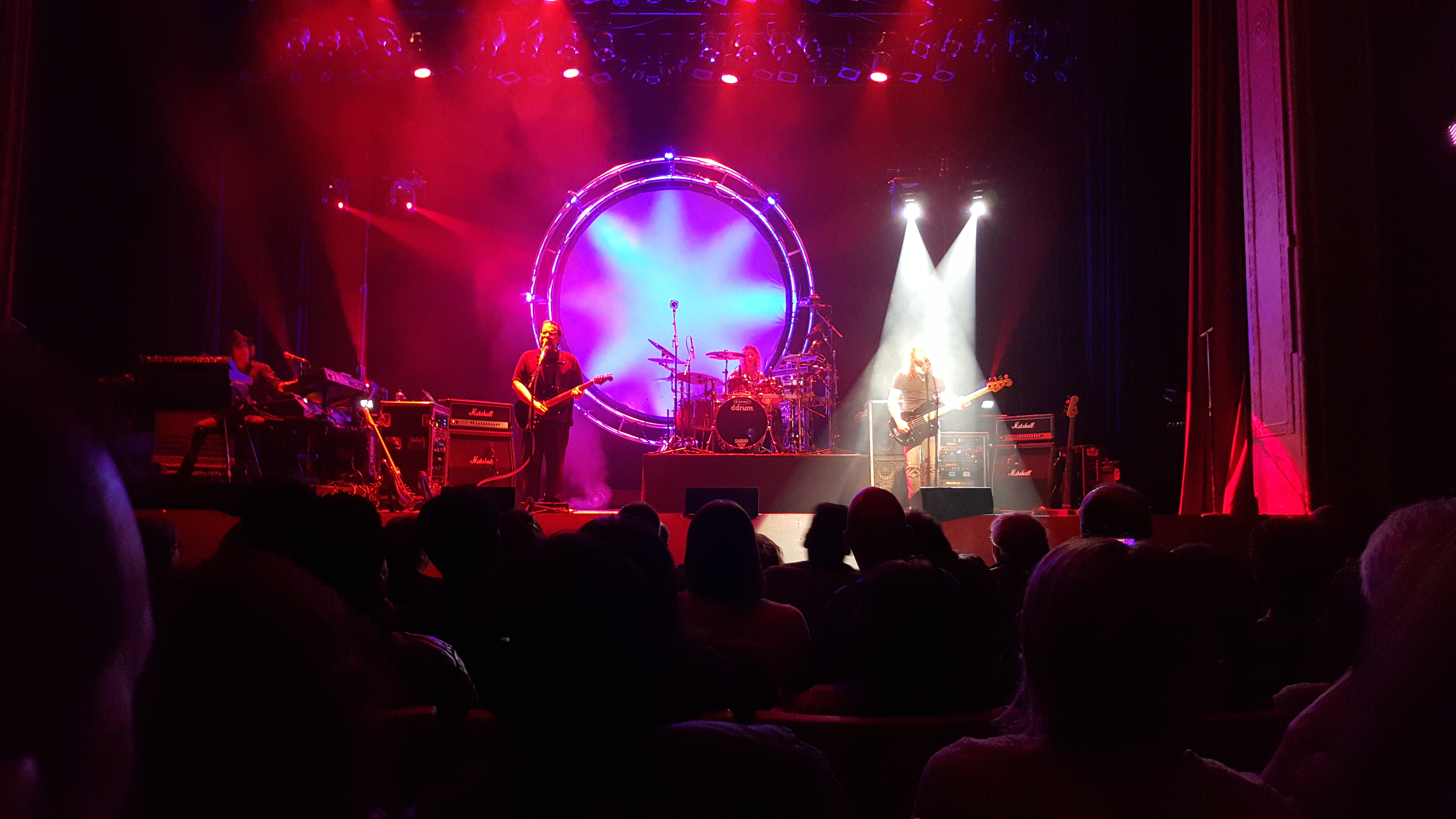 The Machine performs at BergenPAC, in Englewood, NJ, on March 26, 2016